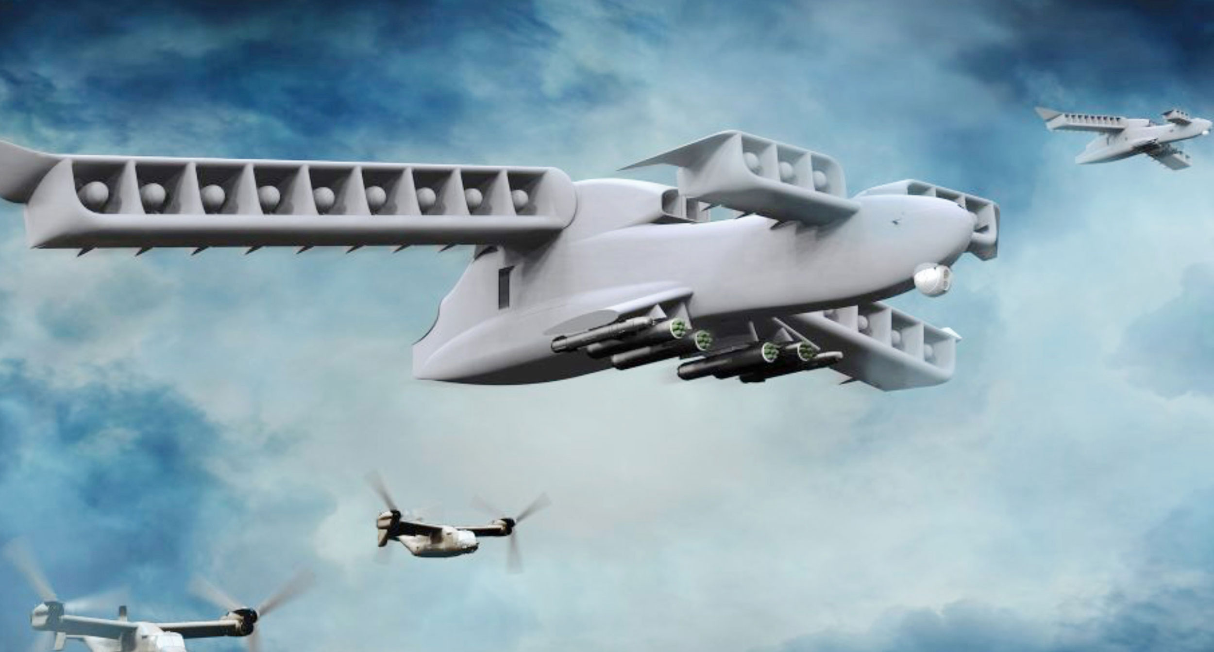 Aurora LightningStrike aircraft, an unmanned, hybrid propulsion aircraft capable of vertical take-off and landing, along with XV-24A Vertical-Lift Platform are currently in progress under DARPA VTOL X-Plane Program